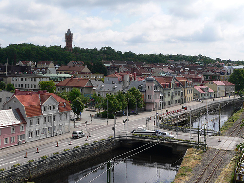 Ronneby